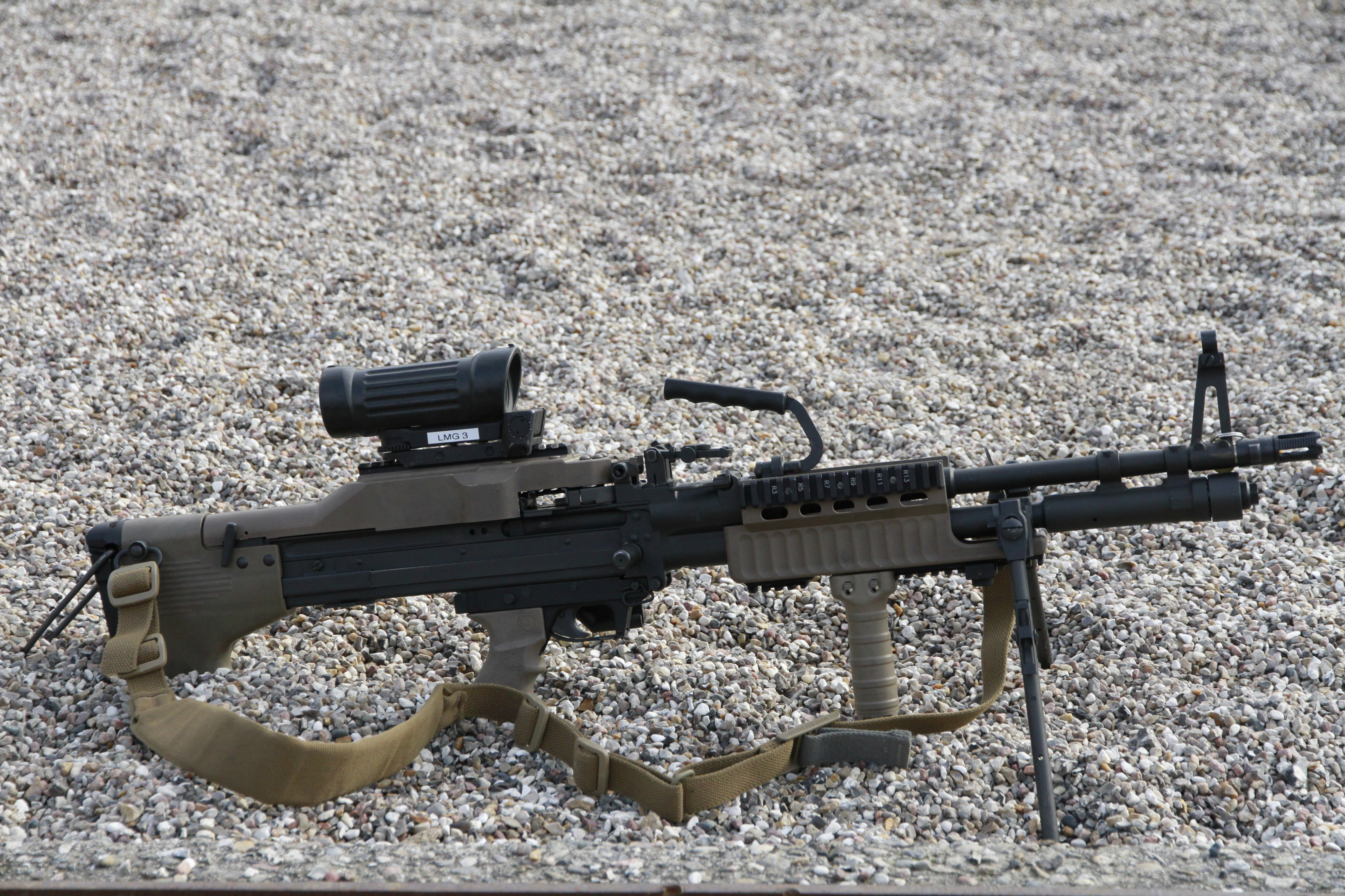 Danish Machine gun M60E6Dansk: Dansk LMG M/60